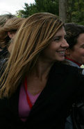 Mrs. Laura Bush smiles as she talks with the media after lunching Friday, Nov. 4, 2005, at Estancia Santa Isabel, an Argentine ranch located not far from Mar del Plata, where President George W. Bush was participating in the 2005 Summit of the Americas